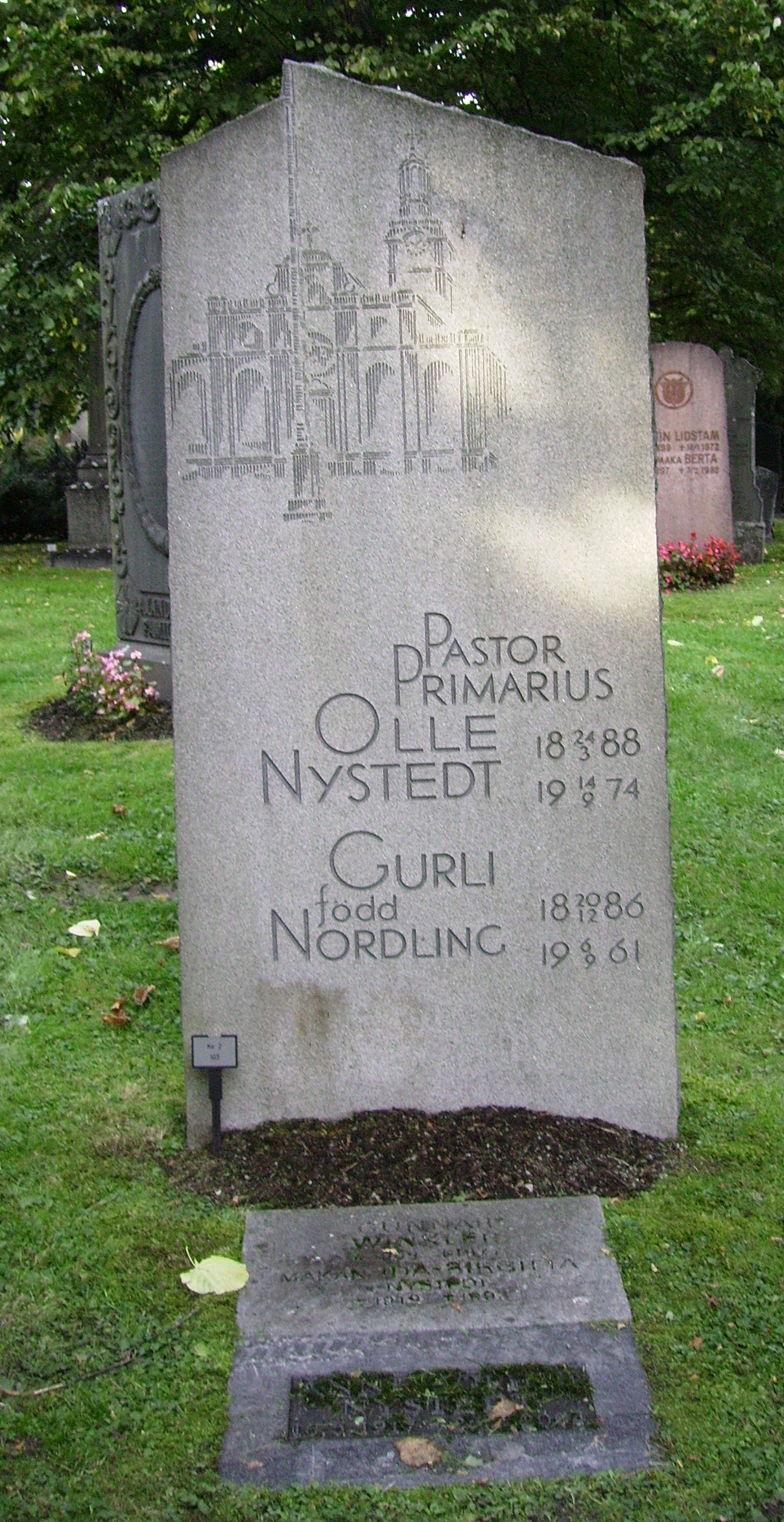 Picture of Olle Nystedt's grave at Norra begravningsplatsen in Solna